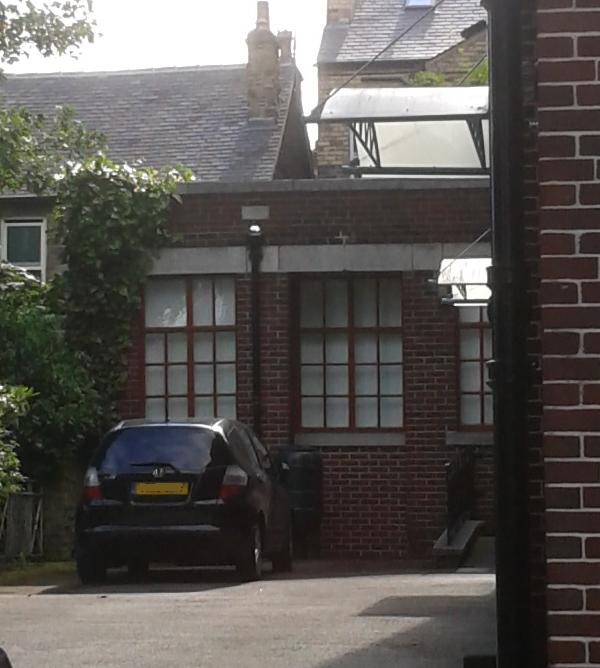 Sukkah of the former Wilson Road Synagogue, in the Ecclesall Road area of Sheffield